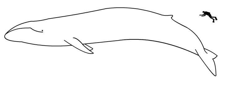 Size comparison of an average human and a blue whale